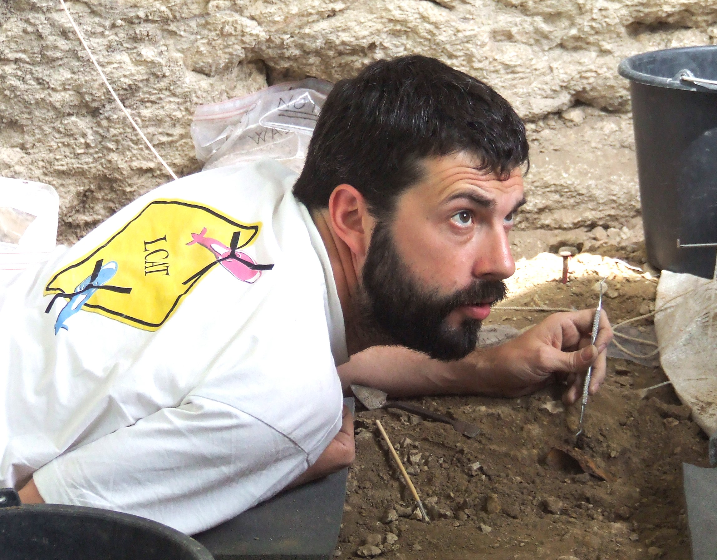 Excavations of Upper Paleolithic archeological layer (Gravettian cultural tradition - Cro-Magnons) at the shelter-cave site of Buran-Kaya in Bilohirsk Raion in Crimea carried out by conjoint team of Ukrainian and French archeologists in the summer of year of 2013. Ukrainian part of team was headed by Alexander Yanevich from Institute of Archeology (of National Academy of Sciences of Ukraine) who had revealed the caves of Buran-Kaya in 1991 and had also participated in the direction of the excavations of this site since their re-opening in the year of 2009. The excavations in the site have enabled the discovering of the oldest remains of Anatomically Modern Humans (AMHs) from the extreme southeast Europe (dated by 31 900 + 240/-220 years B.C.) in conjunction with their associated cultural and paleoecological background – related human and faunal remains (with the oldest evidences of postmortem treatments of the dead by early modern humans in Europe), numeric lithic artefacts (including tools) and body ornaments from mammoth ivory securely attributed to Gravettian culture